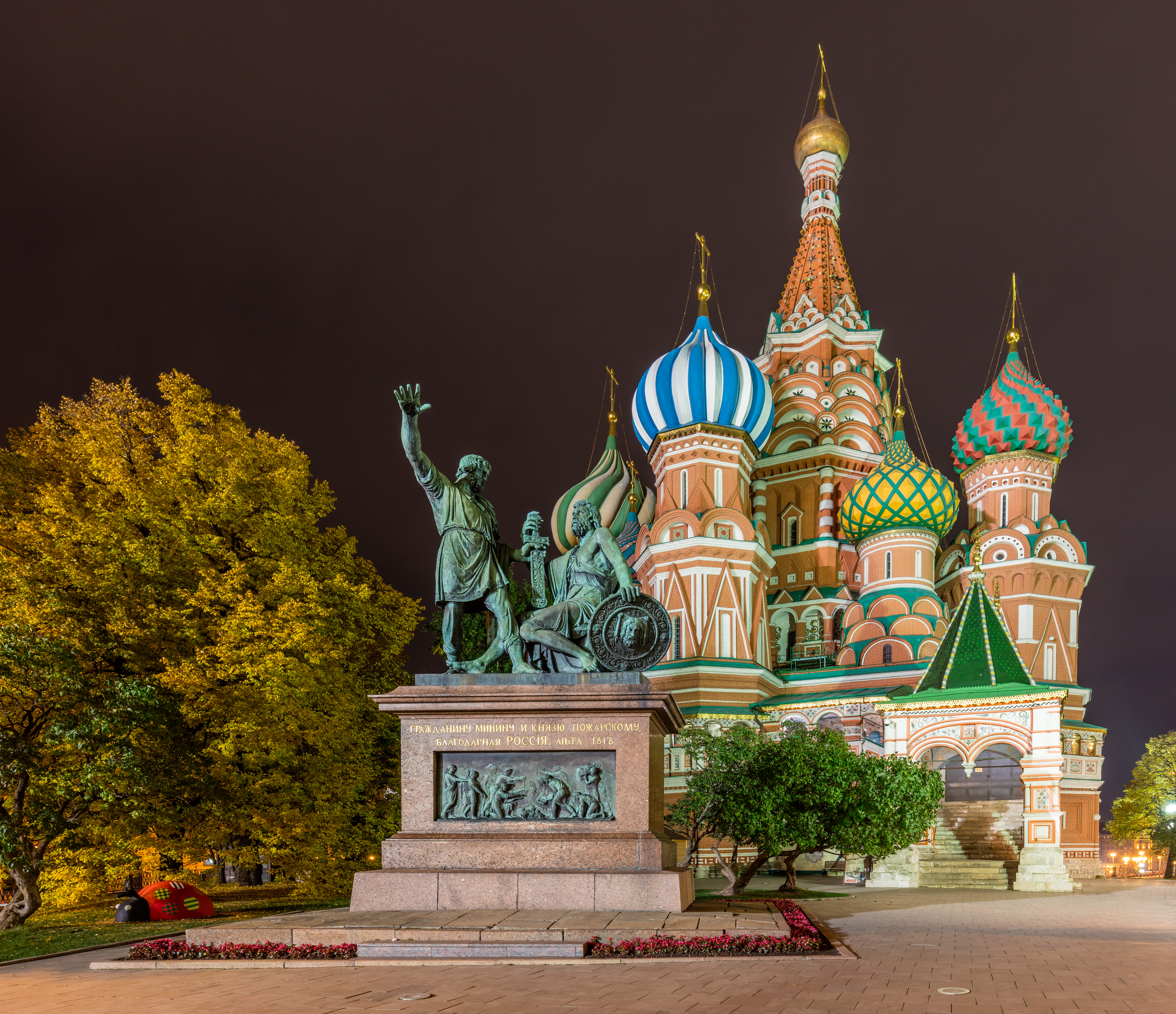 Night view of Saint Basil's Cathedral, Red Square in Moscow, Russia. The building, now a museum and a world-famous landmark, was built between 1555 and 1561 on orders from Ivan the Terrible and commemorates the capture of Kazan and Astrakhan.